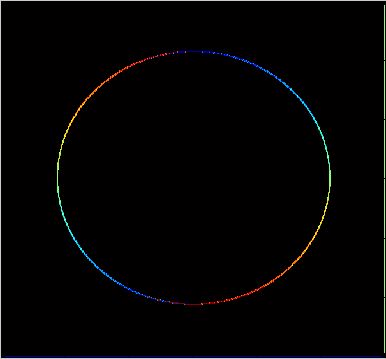 The direction of the Sobel operator's gradient.